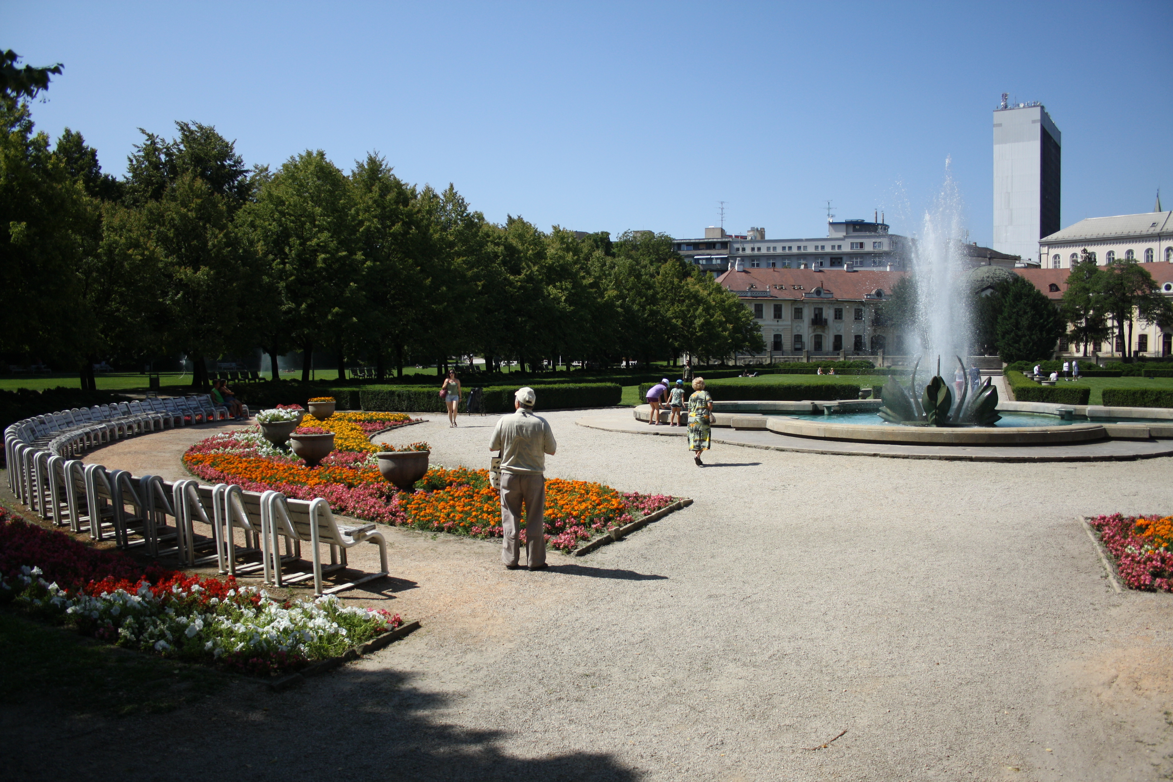 Medic Garden with flowers in Bratislava.